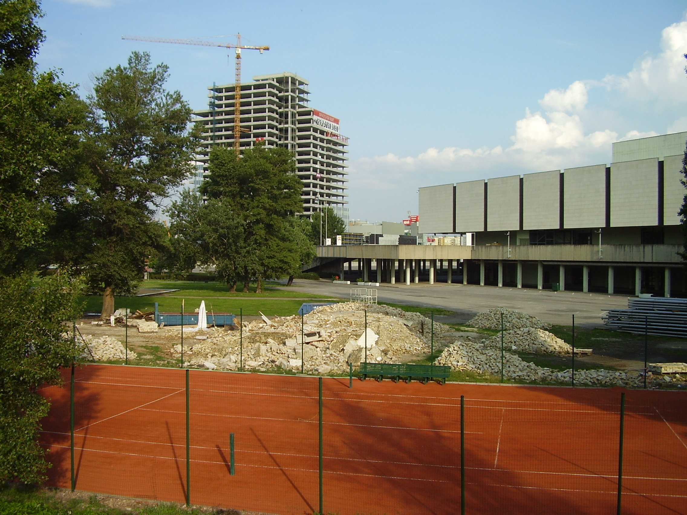 Incheba Expo exhibition complex in Bratislava , Slovakia